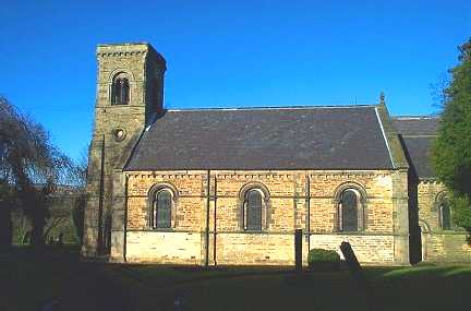 St Bartholomew's parish church, Sunderland Bridge, Croxdale, County Durham, seen from the south